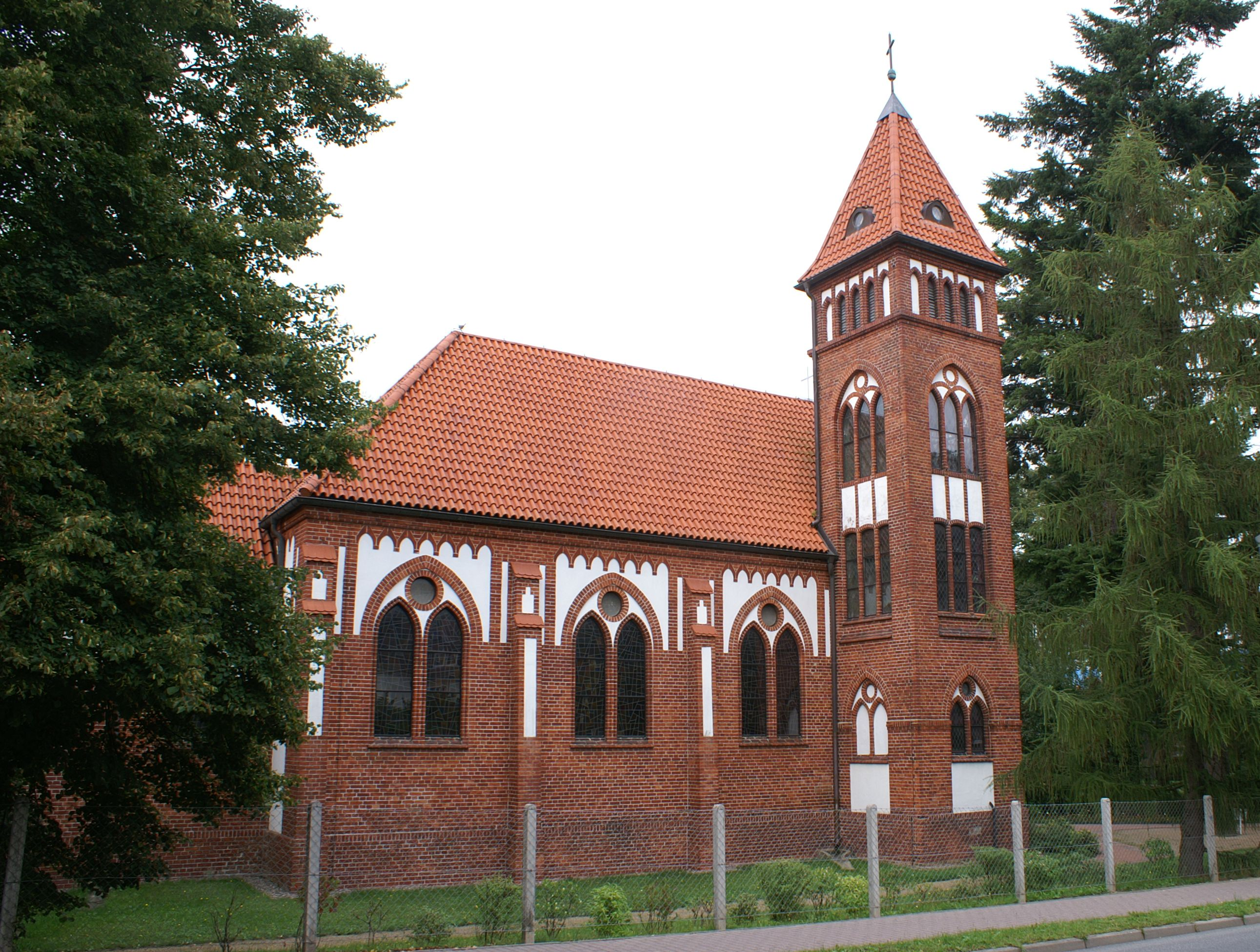 Catholic Sacred Heart of Jesus Church in Wolgast (Mecklenburg-Vorpommern), Germany